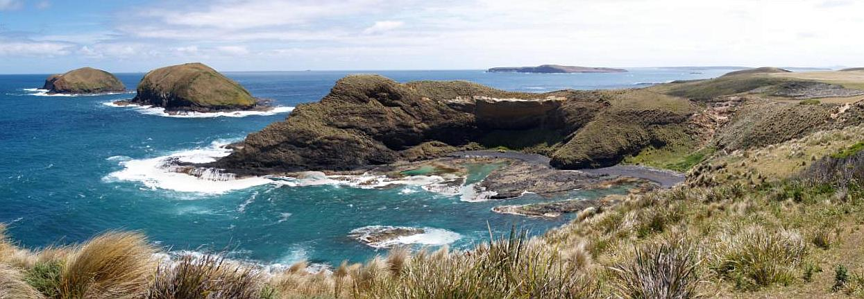 View from near the Cape Grim weather station. On the left is the 'Doughboys', in the middle in the distance is 'Trefoil Island', and beyond on the right is 'Hunter Island' and 'Three Hummock Island'